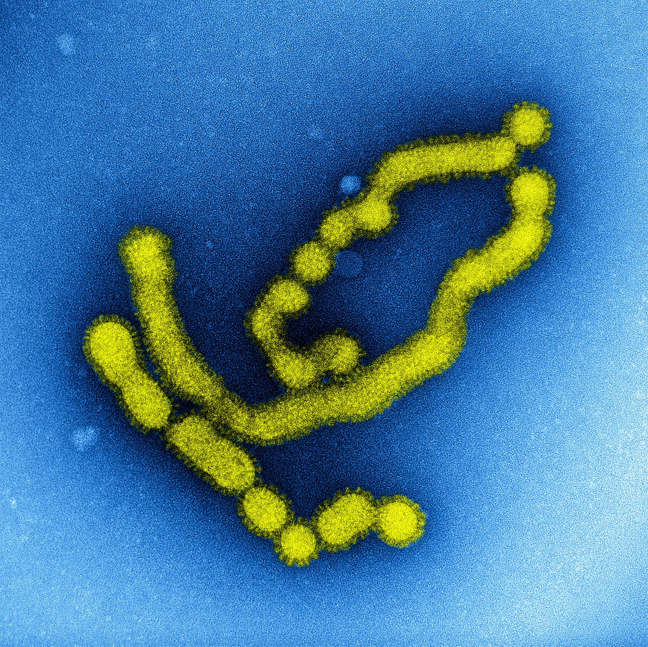 Colorized transmission electron micrograph of negatively stained SW31 (swine strain) influenza virus particles. Credit: NIAID